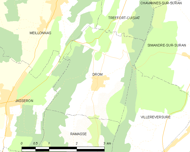 Map of French commune: Drom Map commune FR insee code 01150.png